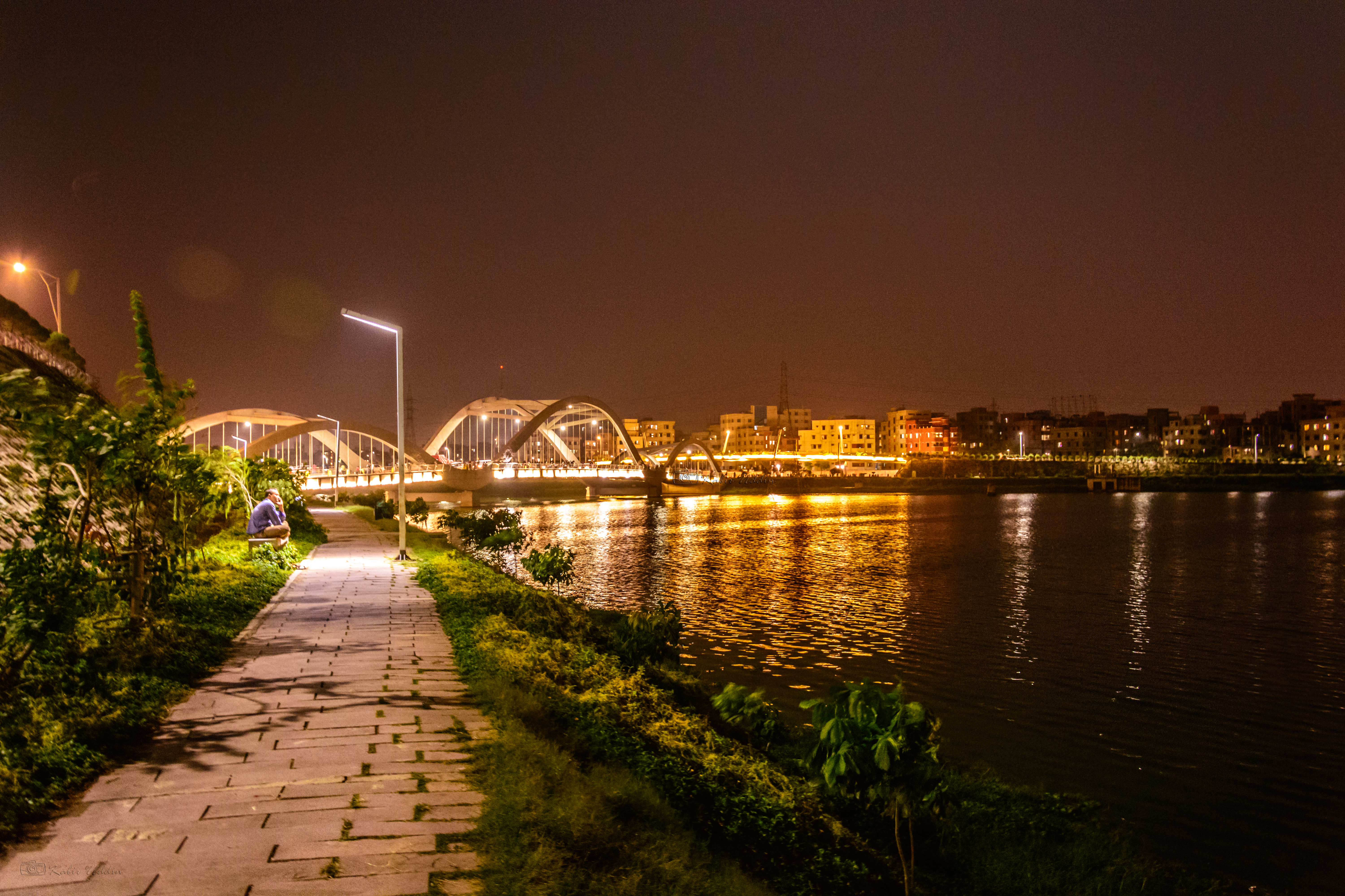 hatirjheel; : dhaka; beautiful; bangladesh; evening; tourist places; kabir; uddin; photography